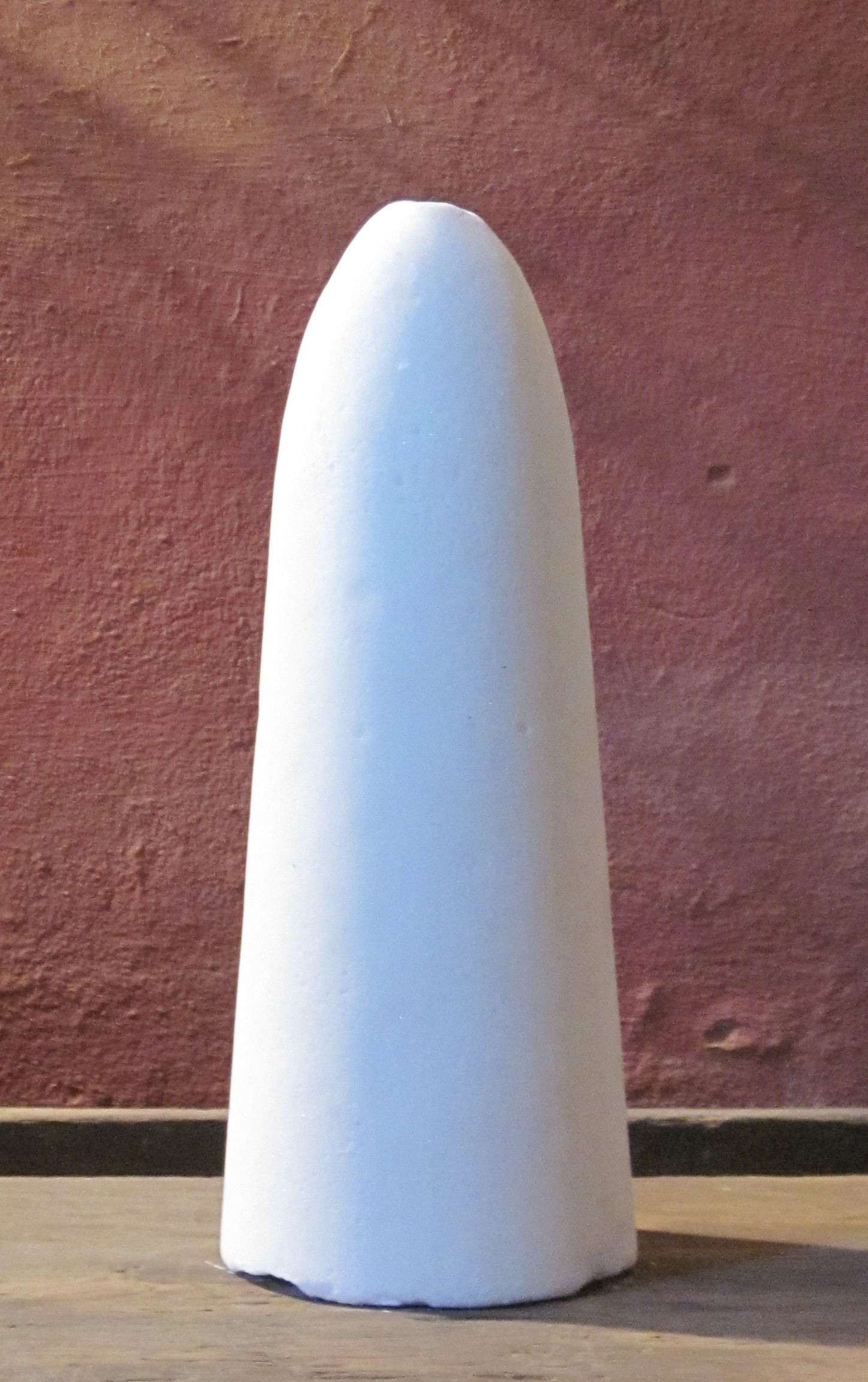 Sugarloaf, purchased in 2010 in the Iranian city Tabriz.